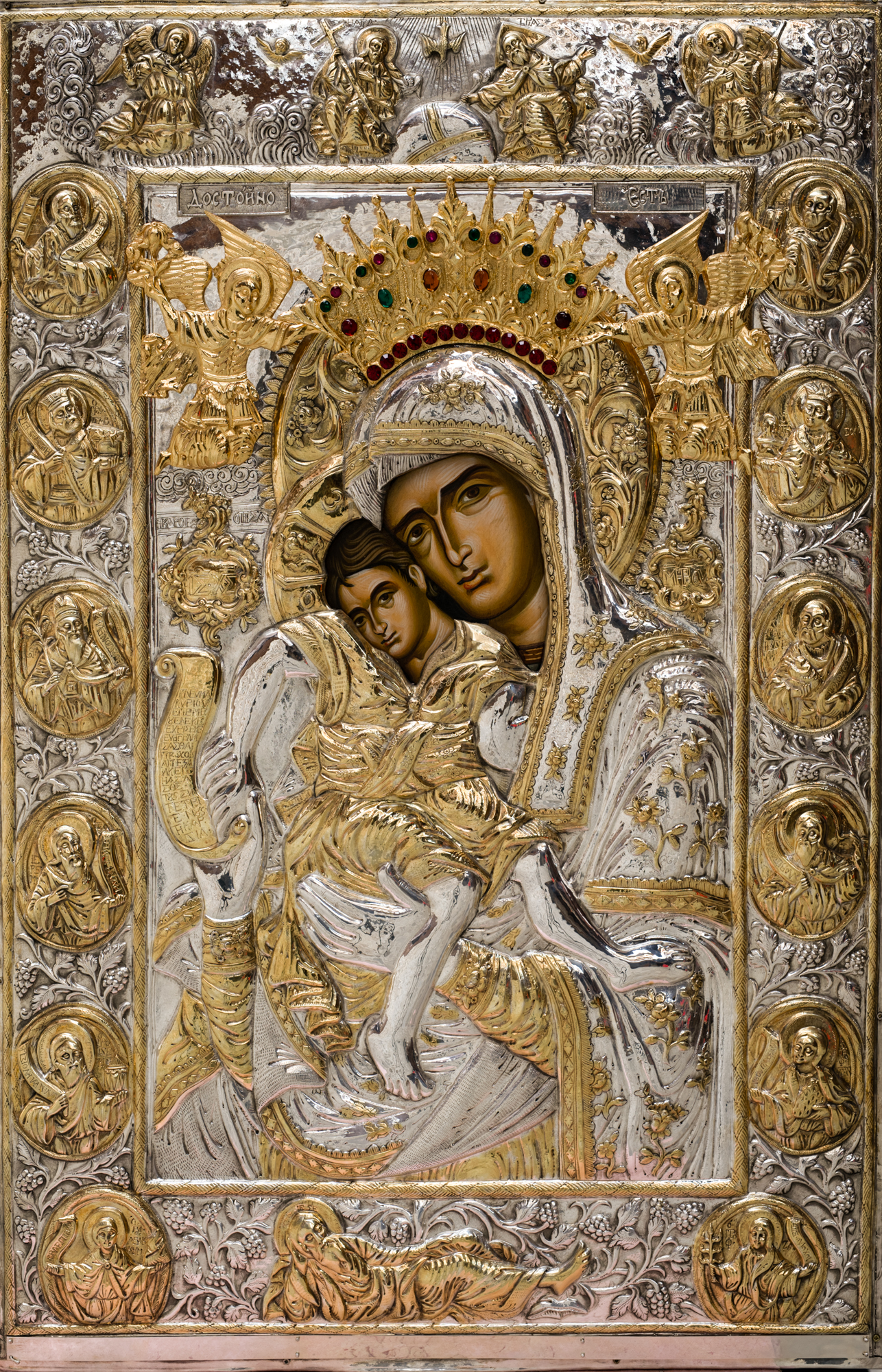 Miracle icon of Holy Mother in monster Monastery St. John the Baptist - Bigorski